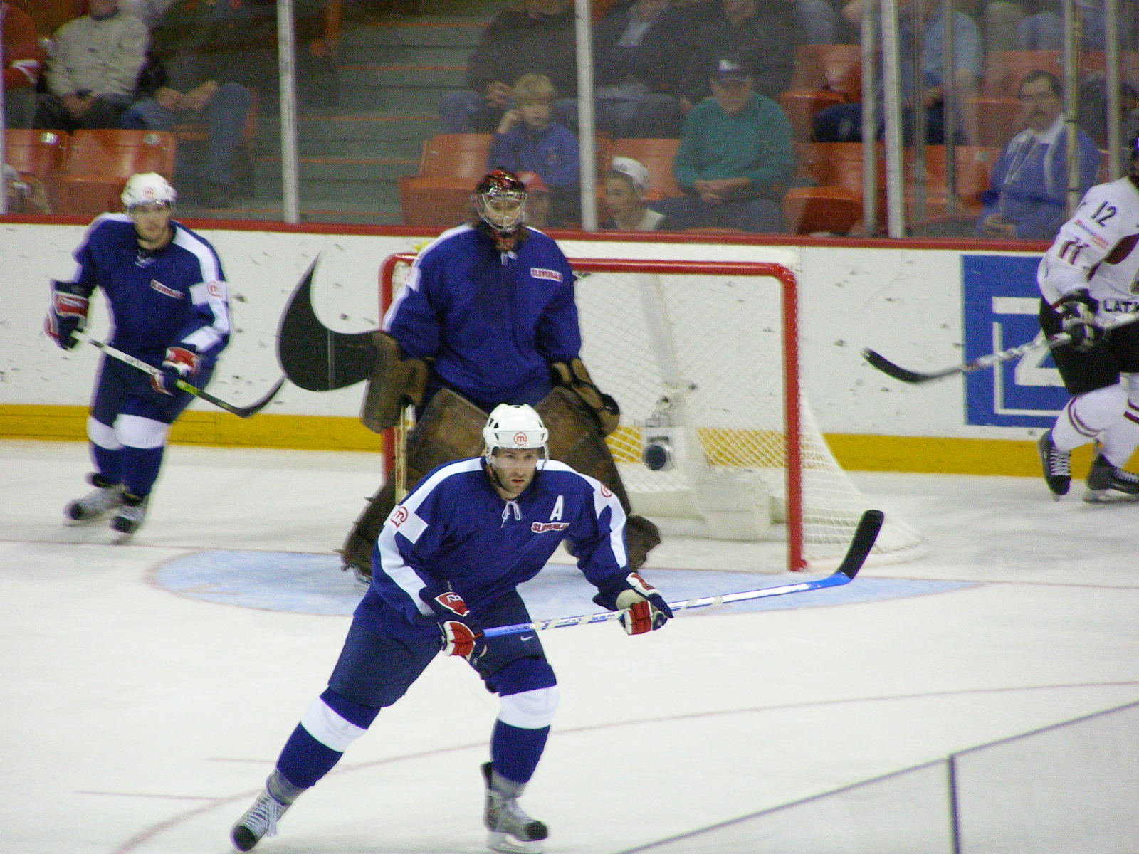 Latvia VS Slovenia (IIHF World Hockey Championship in Halifax NS, May 6 2008)